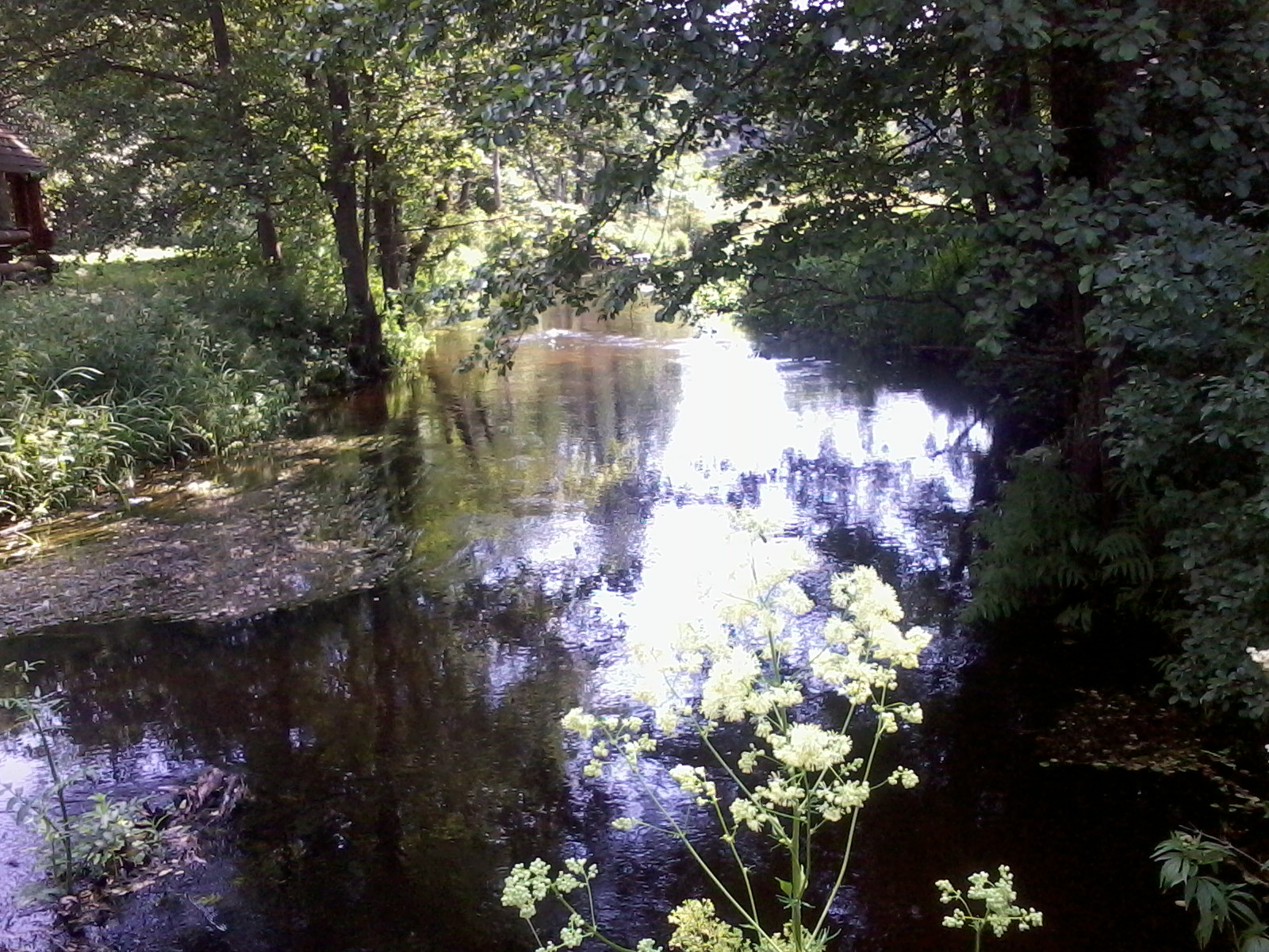 River stracha National Park Narochanski